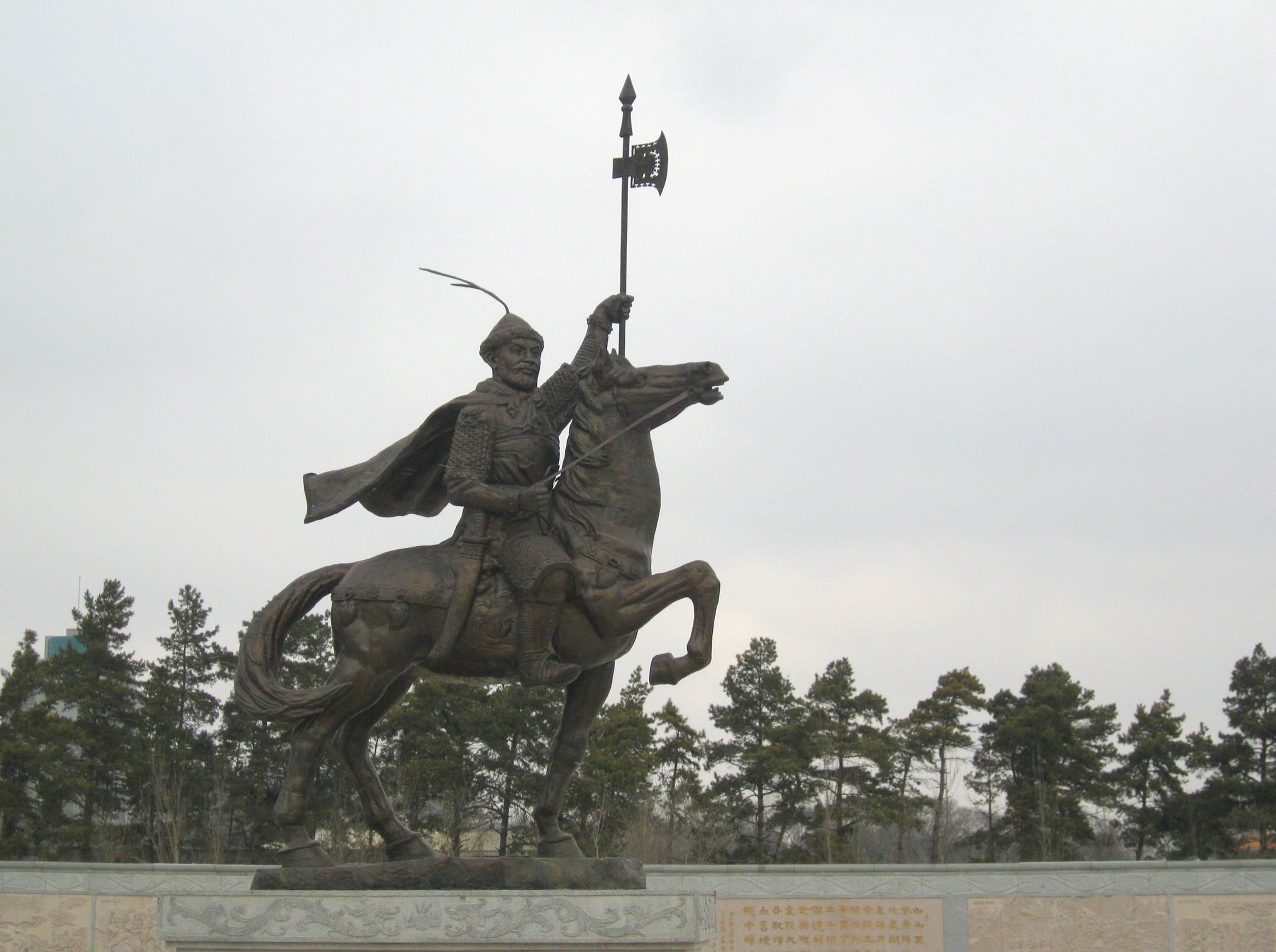 Monument of Wanyan Aguda, founder of Jin dynasty. Museum of the First Capital of Jin (Harbin)